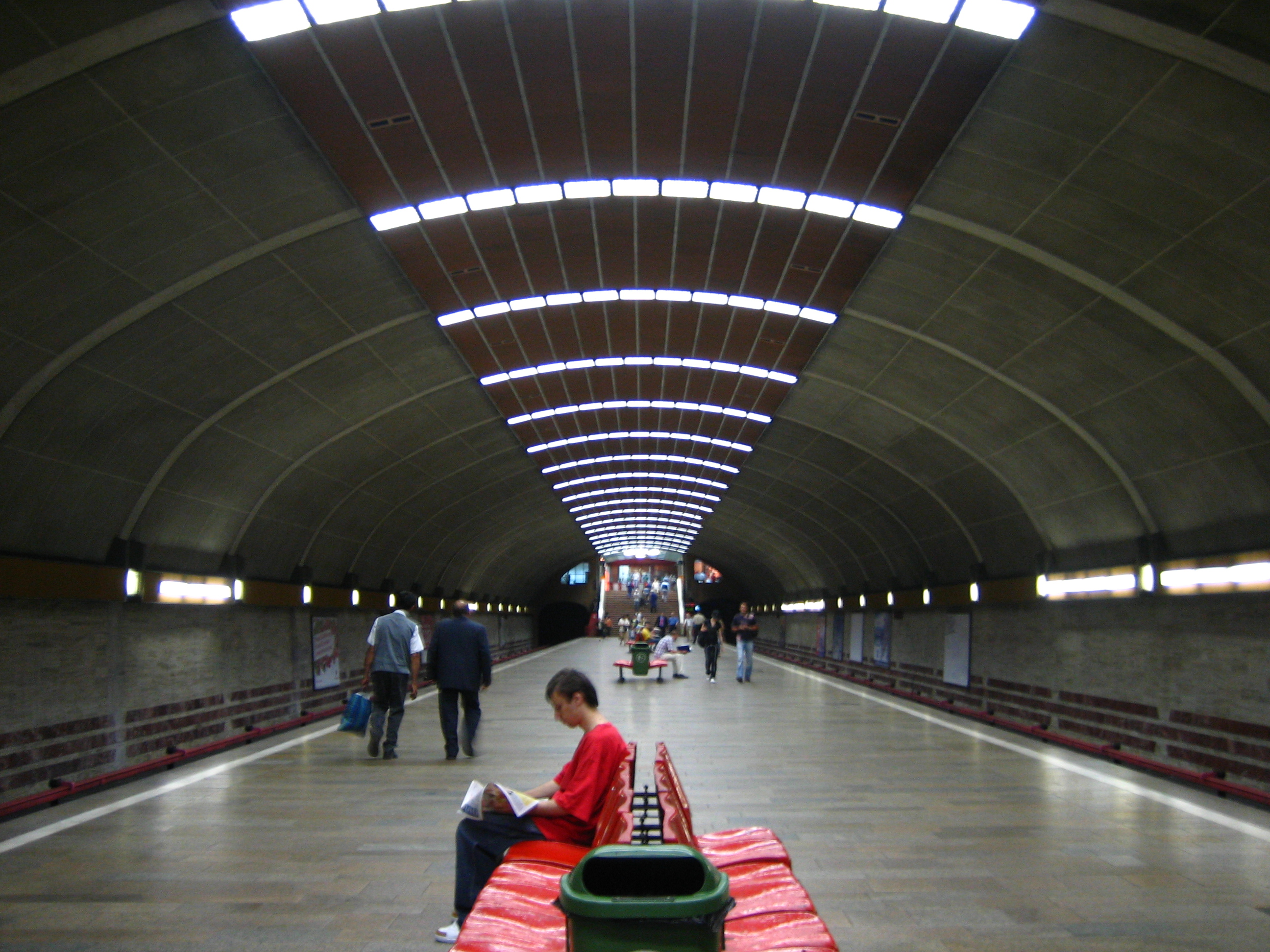 Titan metro station, Bucharest